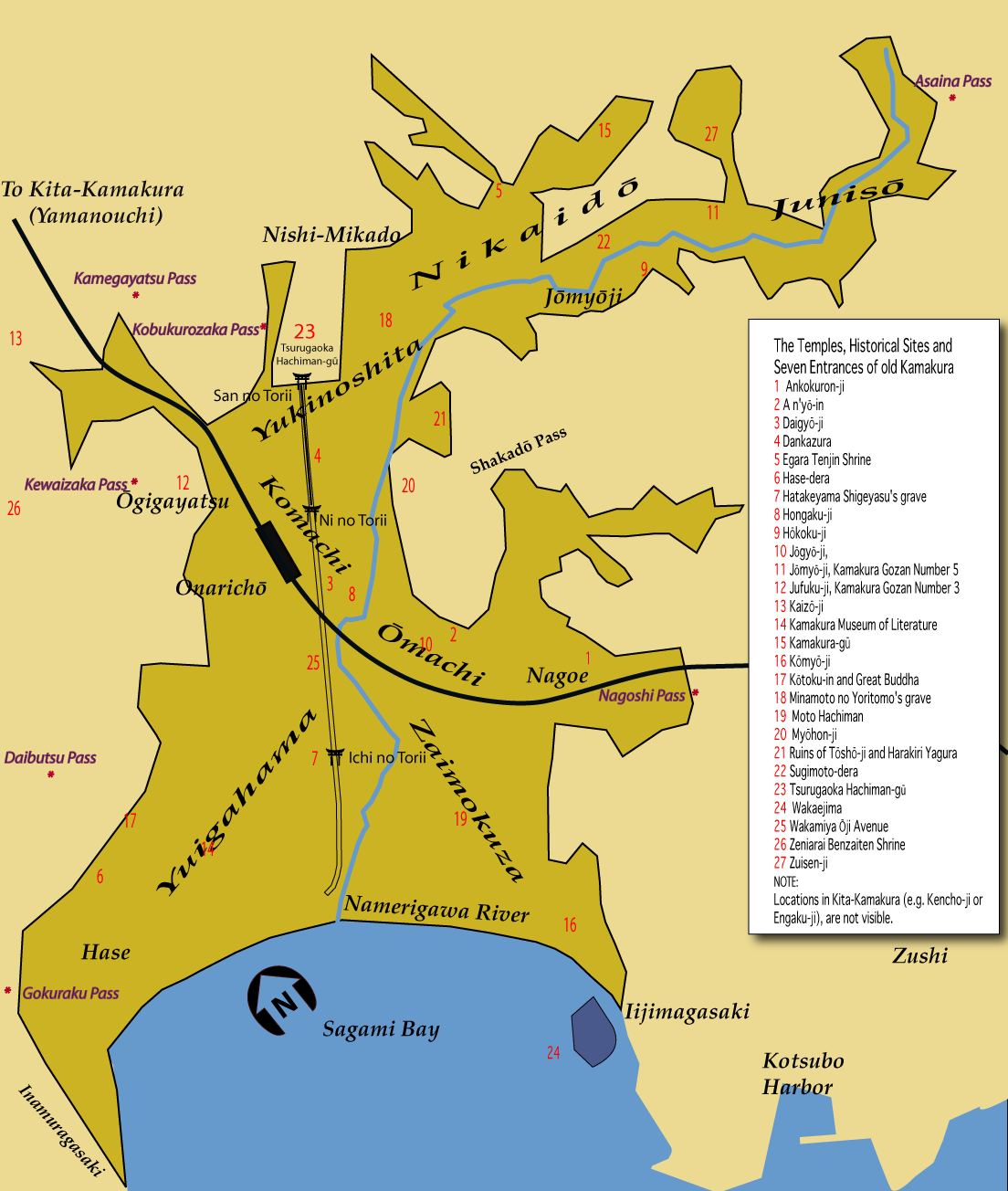 A map of Kamakura, with indications for temples, shrines, the Seven Entrances and historical sites